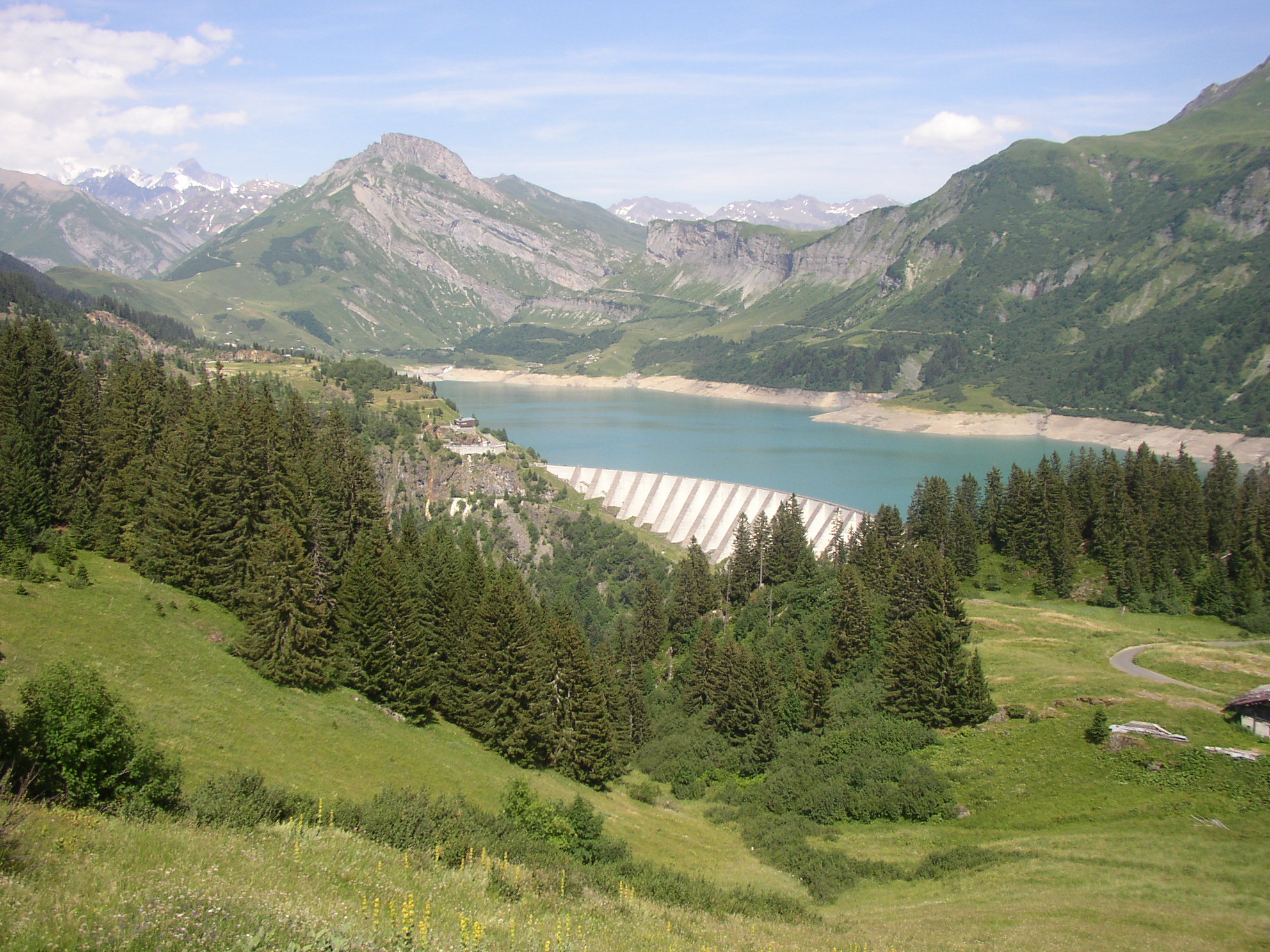 Lake of Roselend in the Beaufortain valley (Savoie, France) in July 2003. Personal picture.